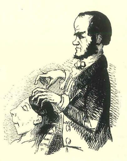 An 1843 Punch cartoon depicting John Elliotson playing the brain of a mssmerised working-class woman like a piano. Mesmerism; phreno-mesmerism; phrenomesmerism; animal magnetism; alternative medicine; medical reform; quackery; quacks; British physicians